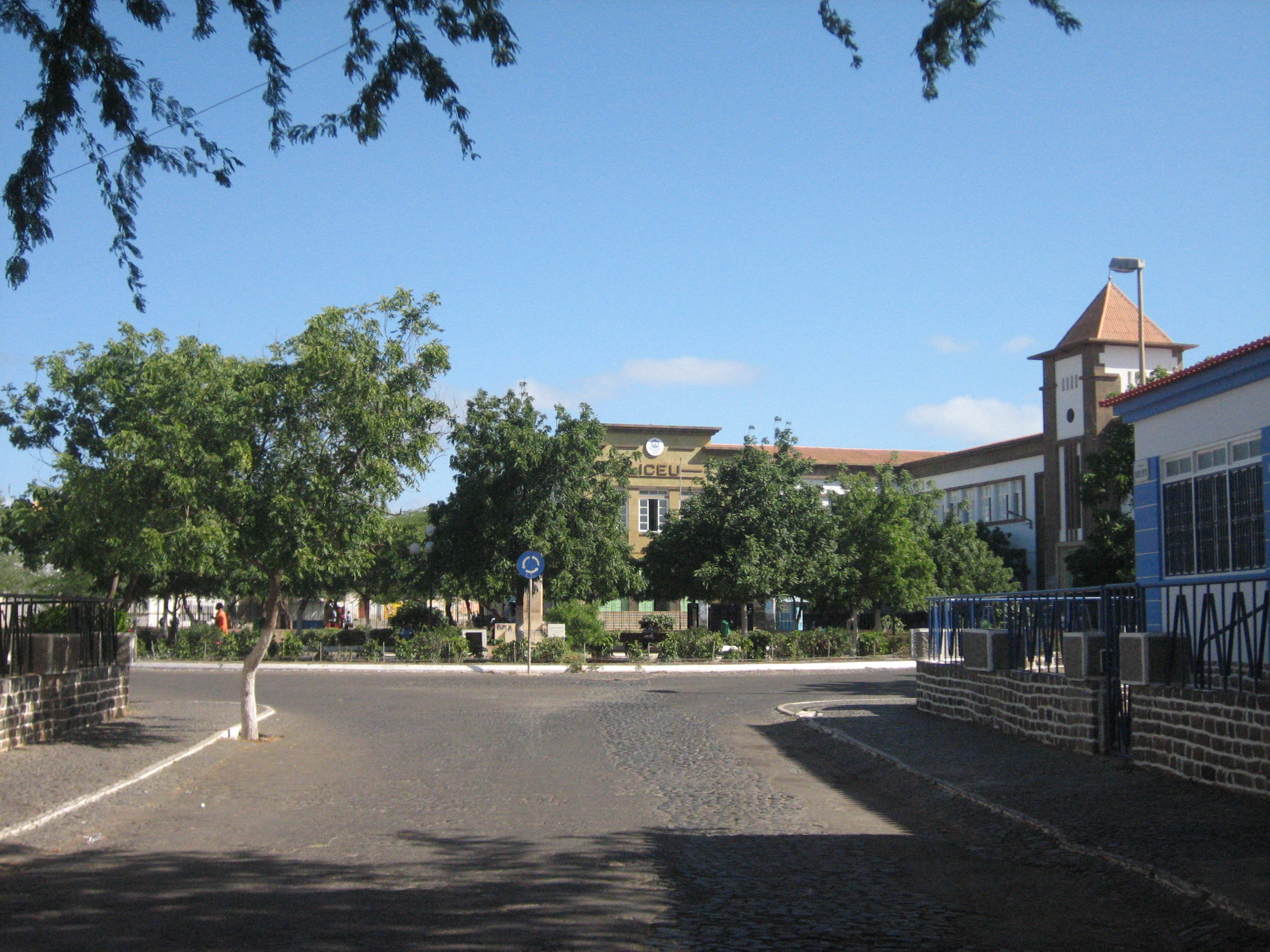 The Praça Domingos Ramos with the grammar school (liceu) in the background at the northern end of the quarter Plato in Praia, Cape Verde